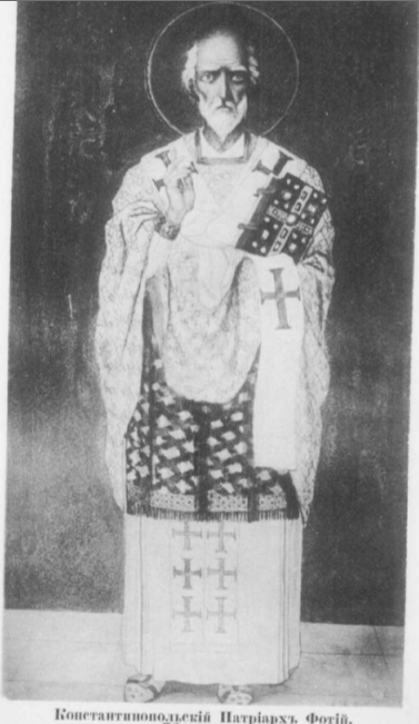 Image of a fresco in Saint Sophia's Cathedral, Kiev, from the book "О значении для России константинопольского патриарха Фотия" ("The significance for Russia of the Patriarch of Constantinople Photius") by N. Leopard, 1891